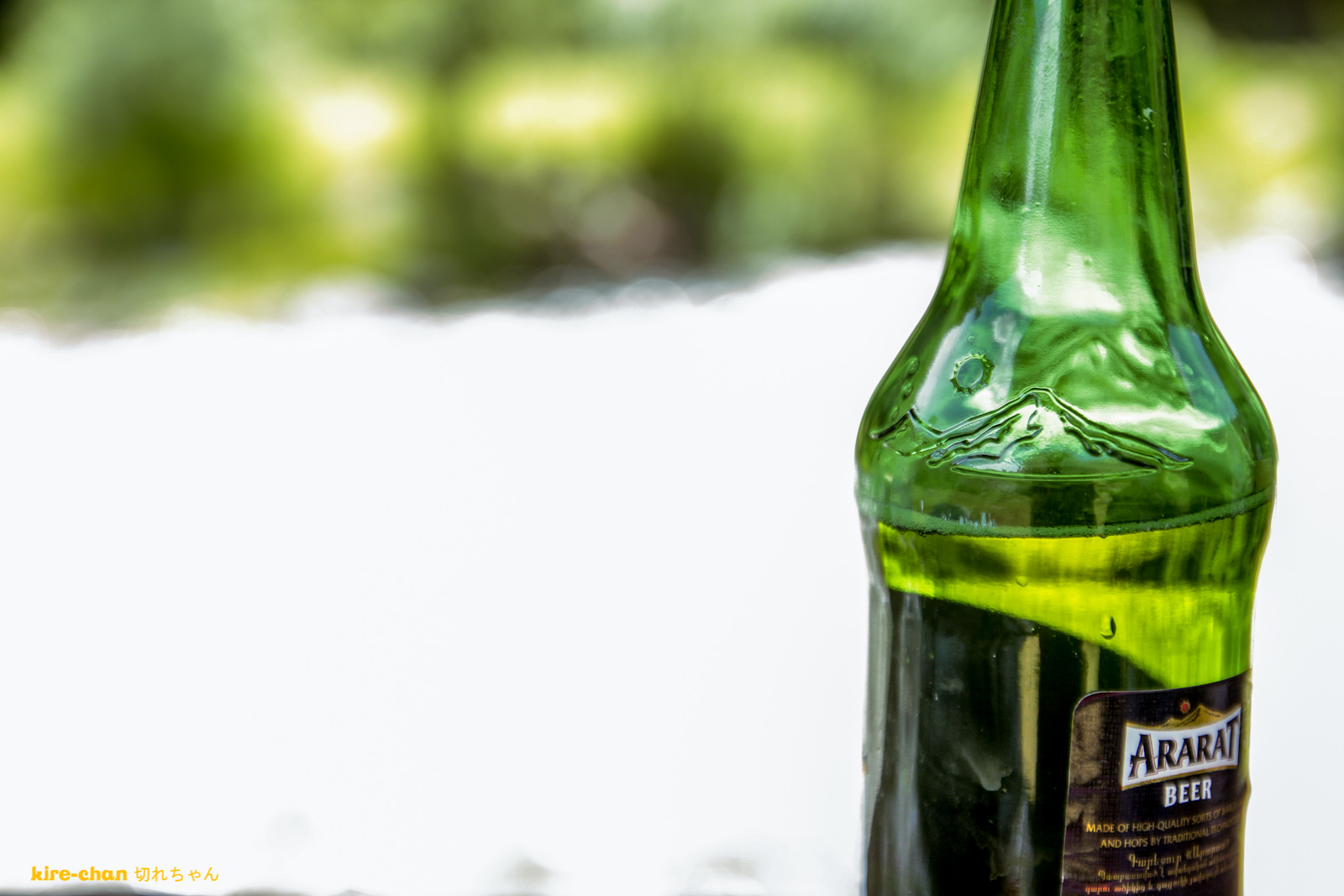 Ararat Beer, Armenia